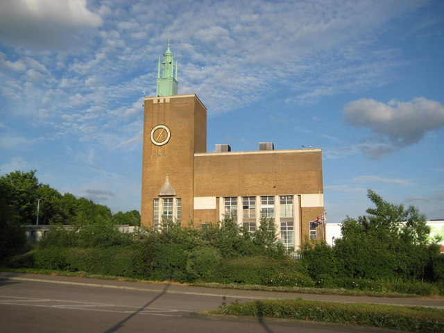 Source page description says: "Watford: Odhams press hall. The structure is a reminder of Watford's history as a centre of the printing industry. It was built in 1954 to the designs of the architectural practice of Yates, Cook & Derbyshire and forms a prominent landmark along the A41 North Western Avenue. The massive clock tower has a purpose - it houses a tank for holding water during the printing process. The building is listed." Watford, London. The building design was inspired by Stockholm City Hall